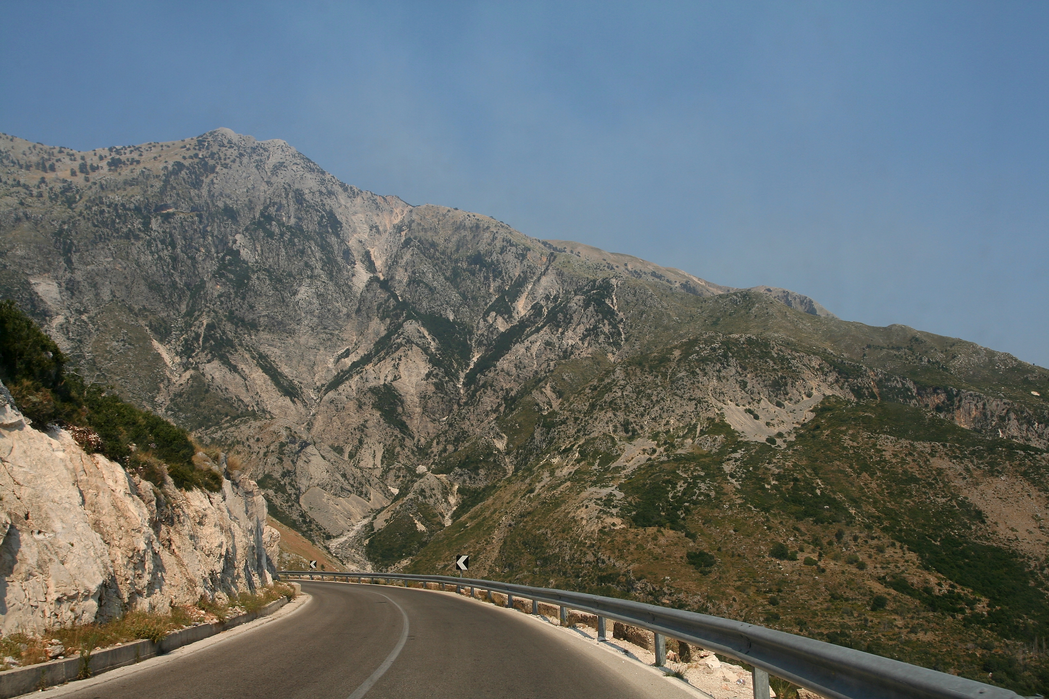 Road on the mountains of the National Park of Llogara, Çika Mountain shown (Mali i Çikës) Himara, Albania